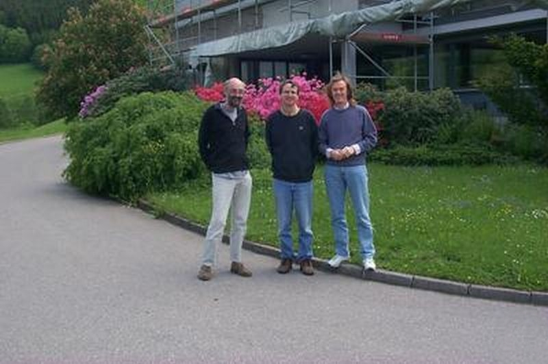 From left: Christopher W. Parker, Ulrich Meierfrankenfeld, Peter John Rowley, Oberwolfach 2003